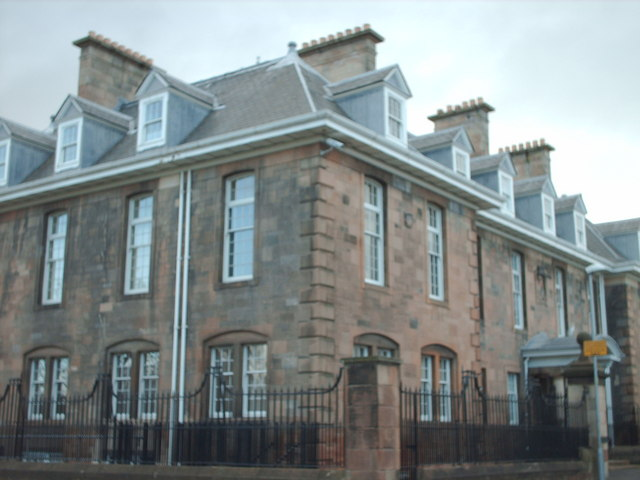 Former Elder Cottage Hospital